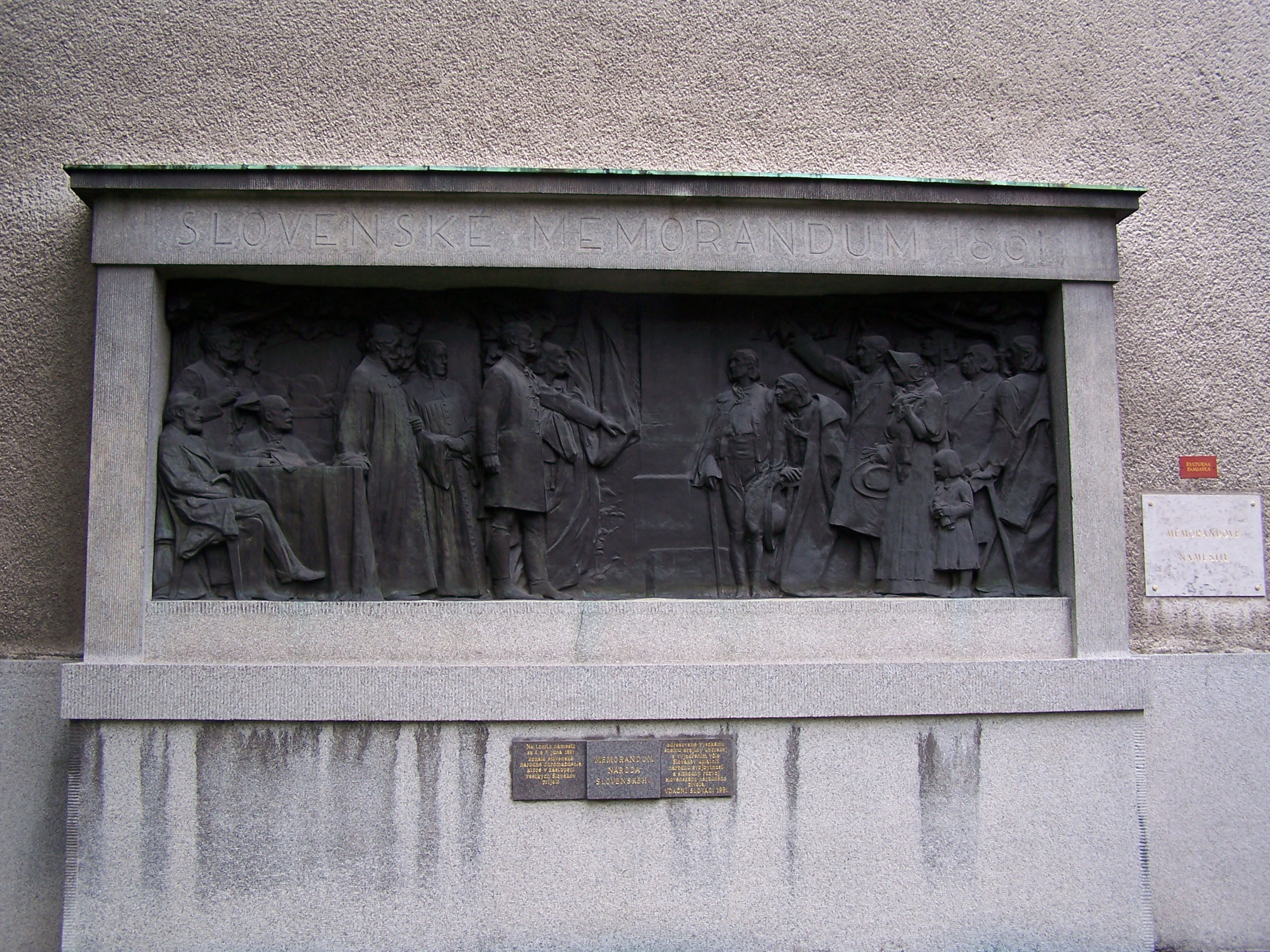 Memorial of the Memorandum of the Slovak Nation in Martin, Slovakia